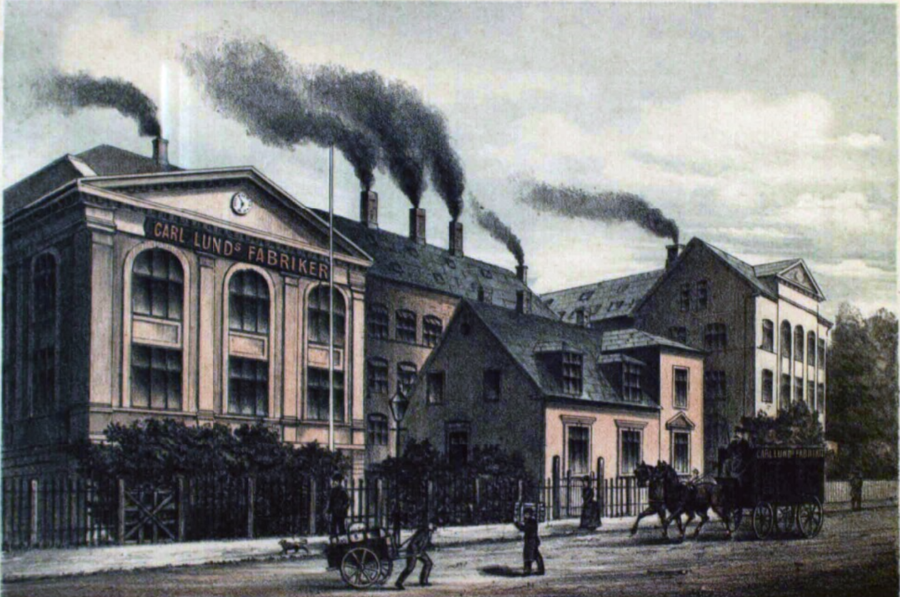 Carl Lunds Fabrikker at present day Danasvej in Frederiksberg, Copenhagen, Denmark